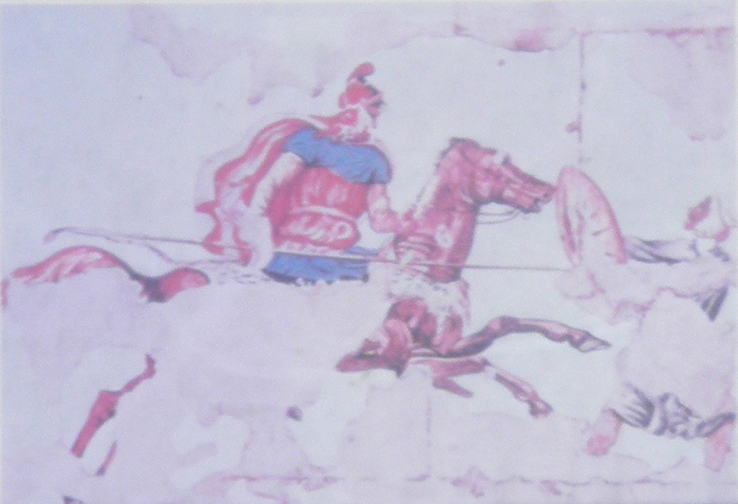 Kinch's Tomb (Macedonian tomb), Lefkadia, Ancient Mieza